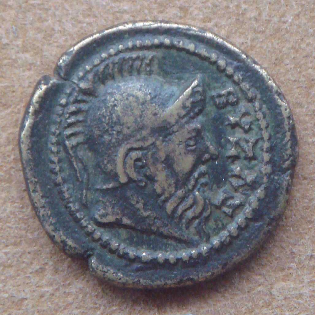 Coinage_with_Byzas_2nd_3rd_century_CE